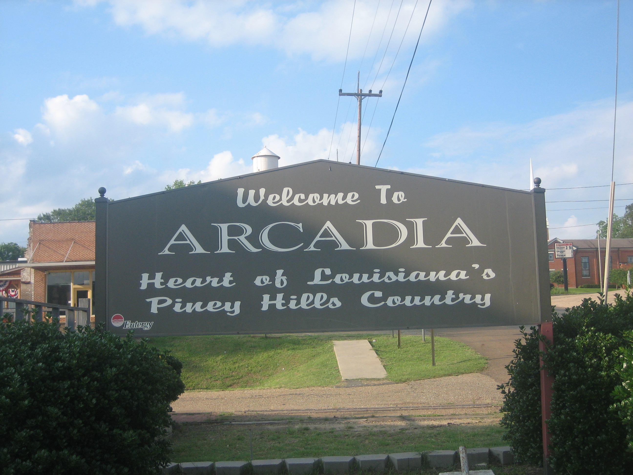 I took photo on May 25, 2009.Billy Hathorn (talk) 03:23, 30 May 2009 (UTC)